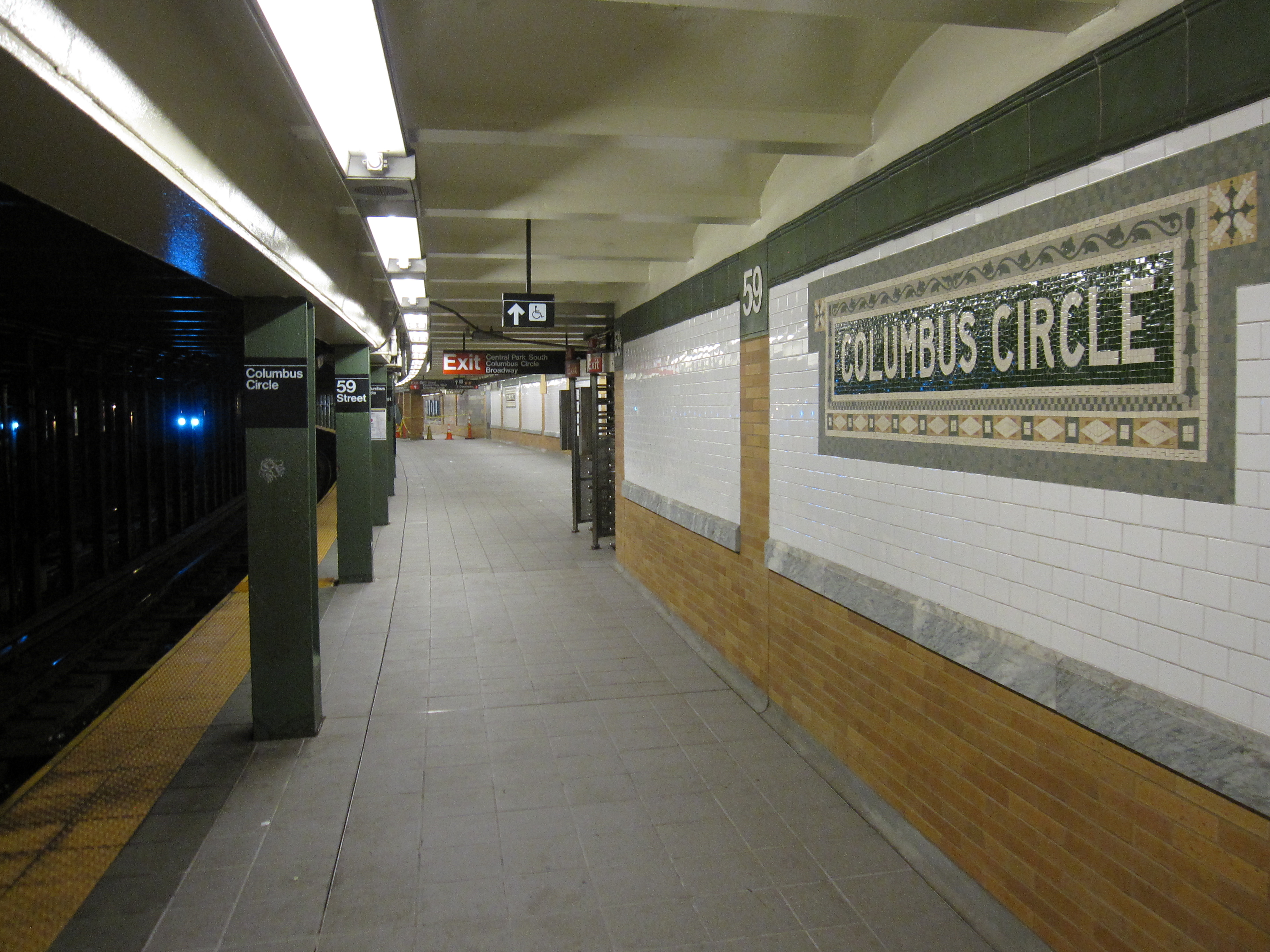 59th Street – Columbus Circle (IRT Broadway – Seventh Avenue Line)